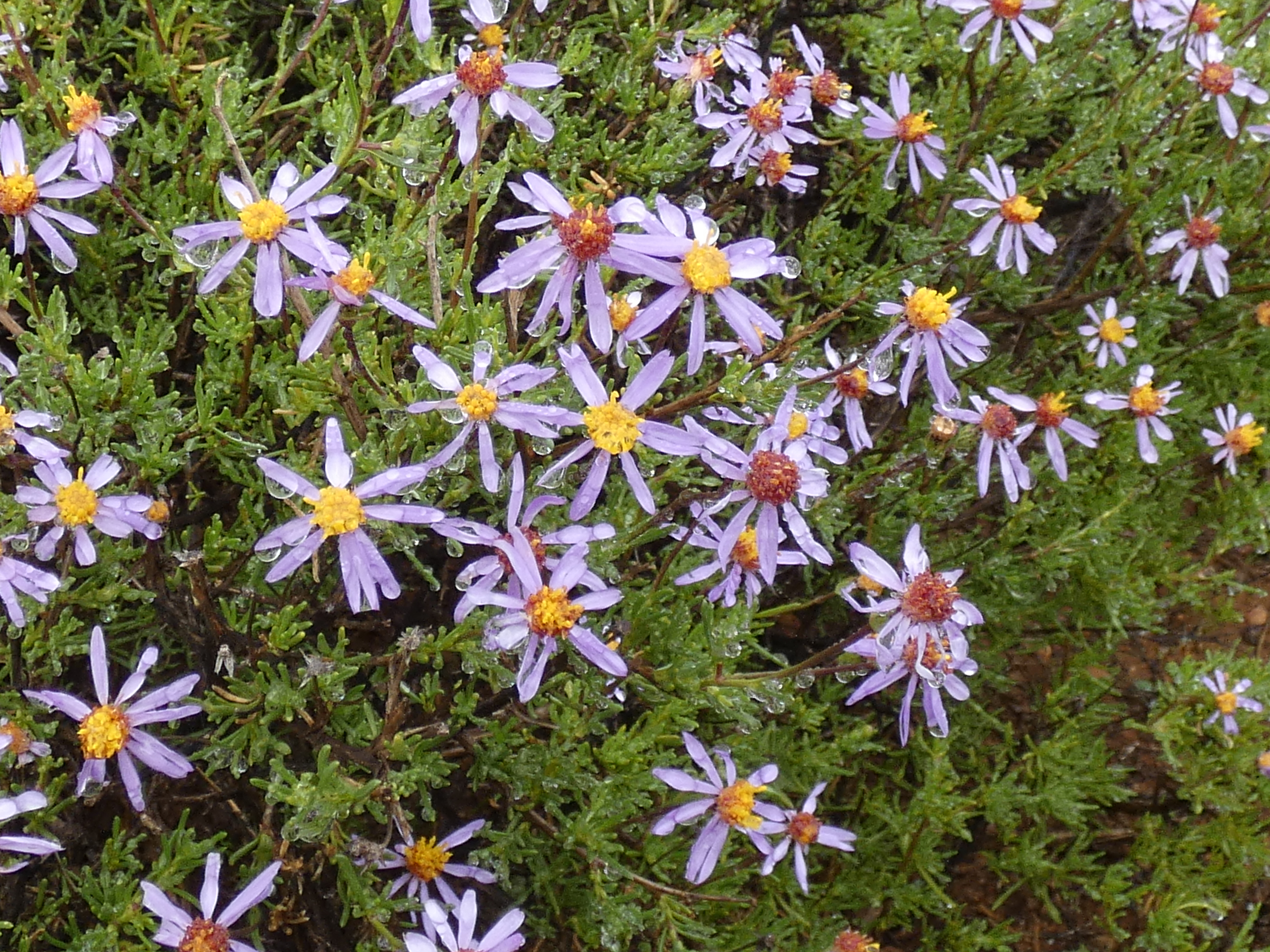 Felicia filifolia, flowering on the Gifberg